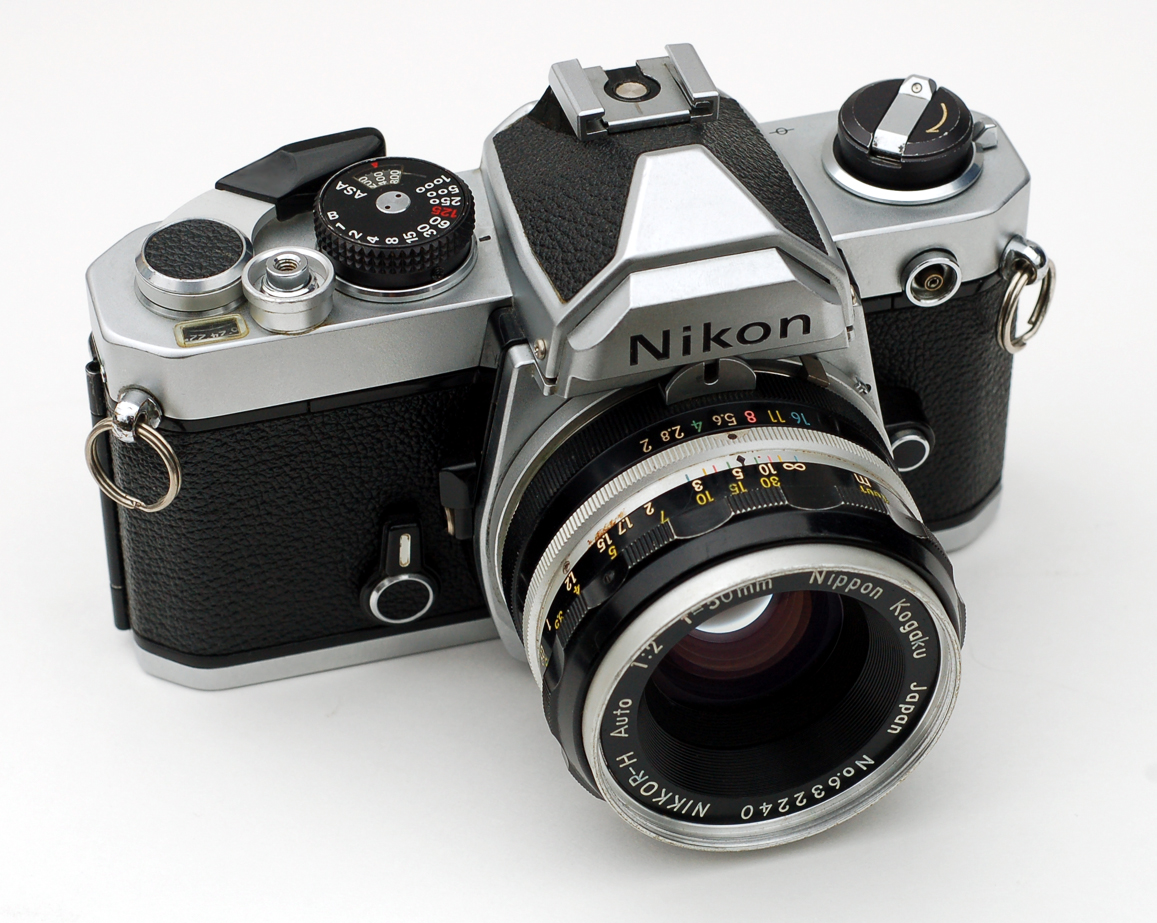 Nikon FM 35mm SLR camera in Japan by Nippon Kogaku from 1977–82. The lens is Nikkor-H 50 mm 1:2, manufactured c1964.